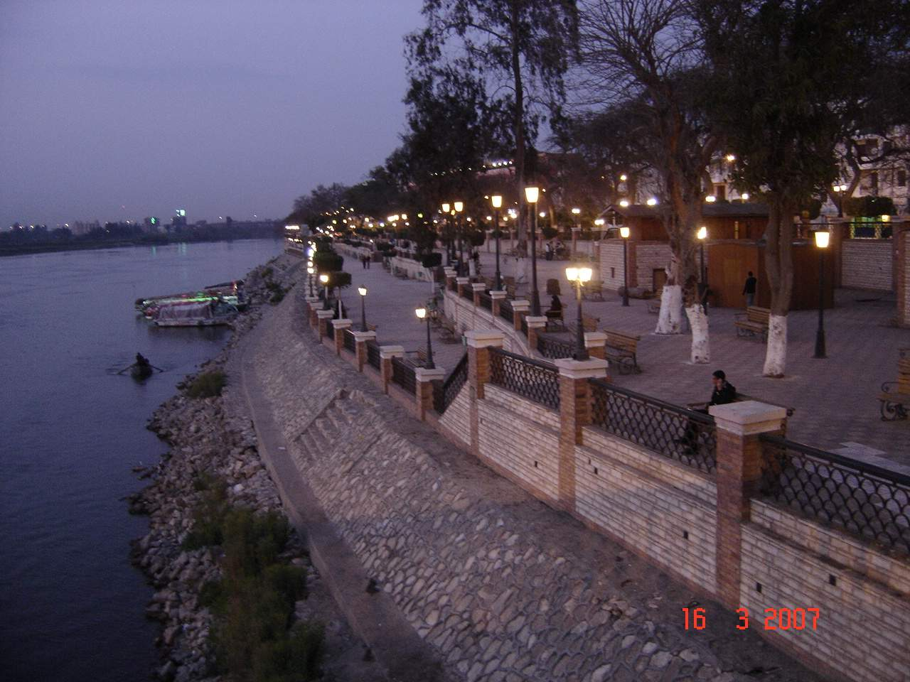 Nile in Benha city (Al-Qaliubia - Egypt)